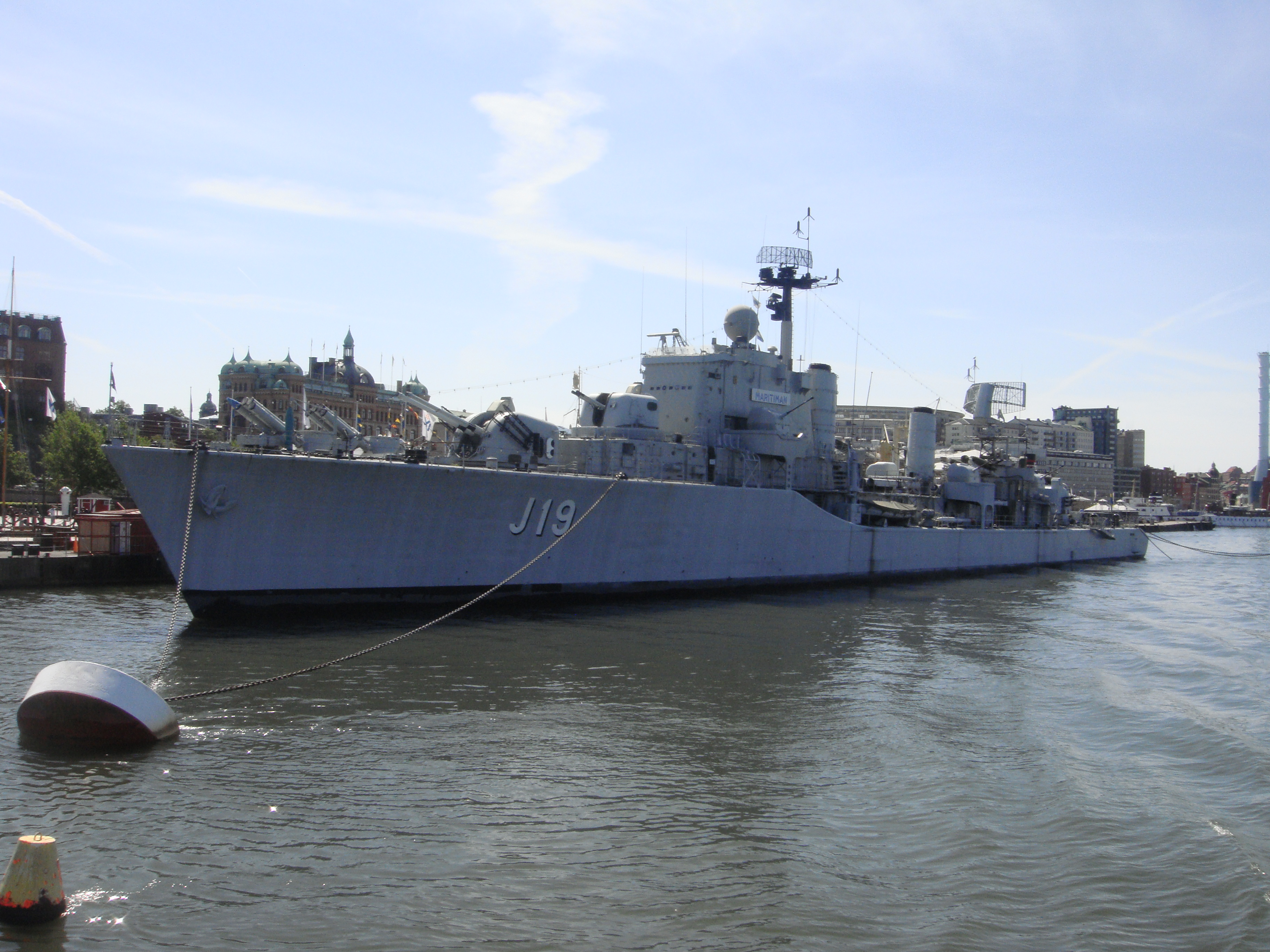 The Swedish destroyer HMS Småland as a museum ship in Gothenburg.